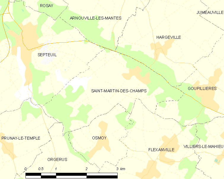 Map of French municipality Saint-Martin-des-Champs